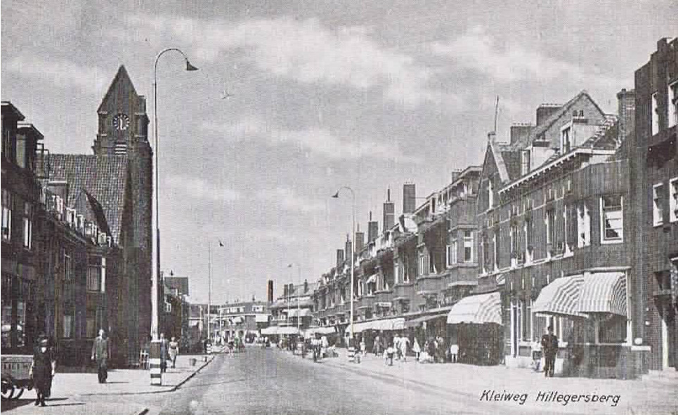 View of the Kleiweg in Hillegersberg (Rotterdam)